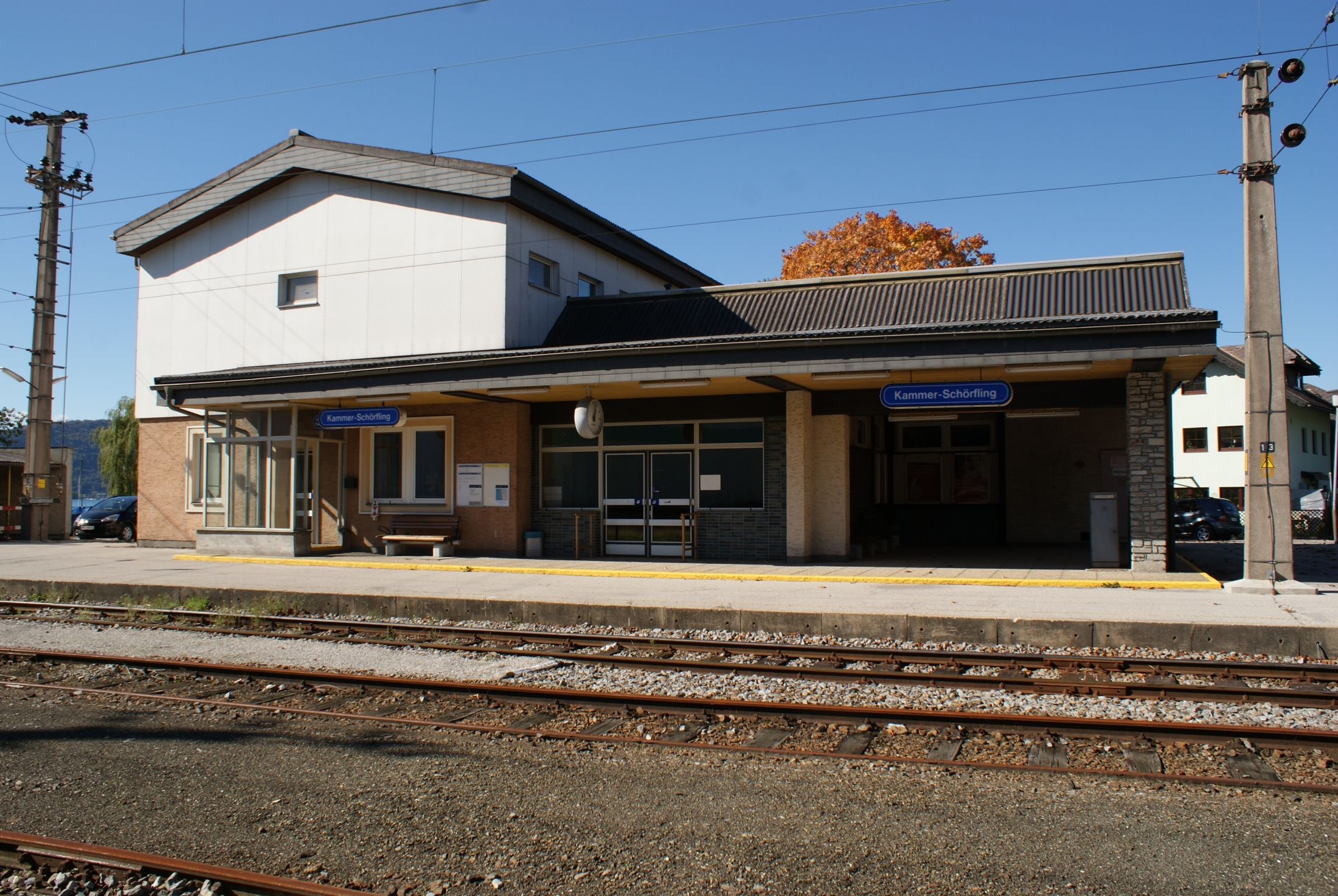 Kammer-Schörfling train station in Upper Austria